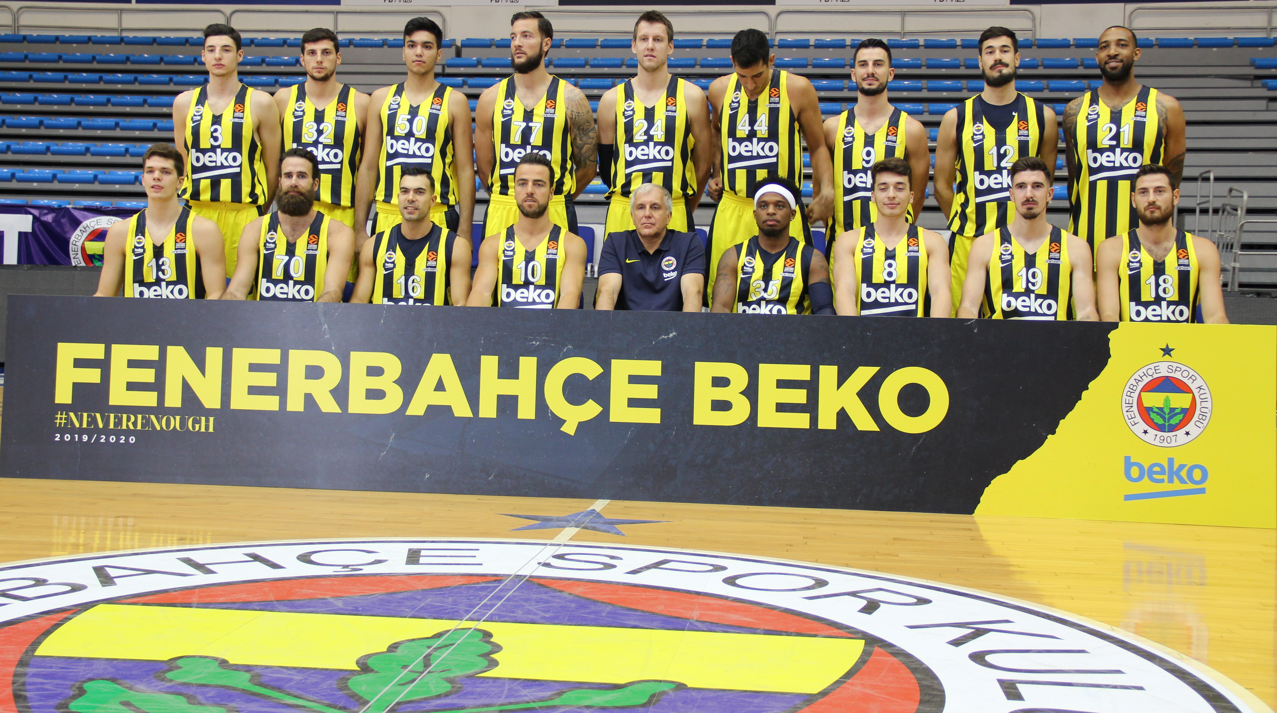 Fenerbahçe Basketball 2019-20 Team Roster Media Day 20190923